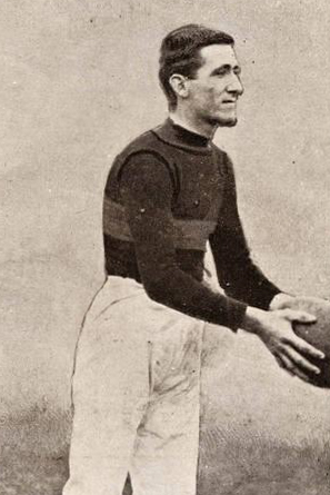 Photograph of Barney Herbert from the 1910 Weekly Times Victorian Footballer Postcard Series